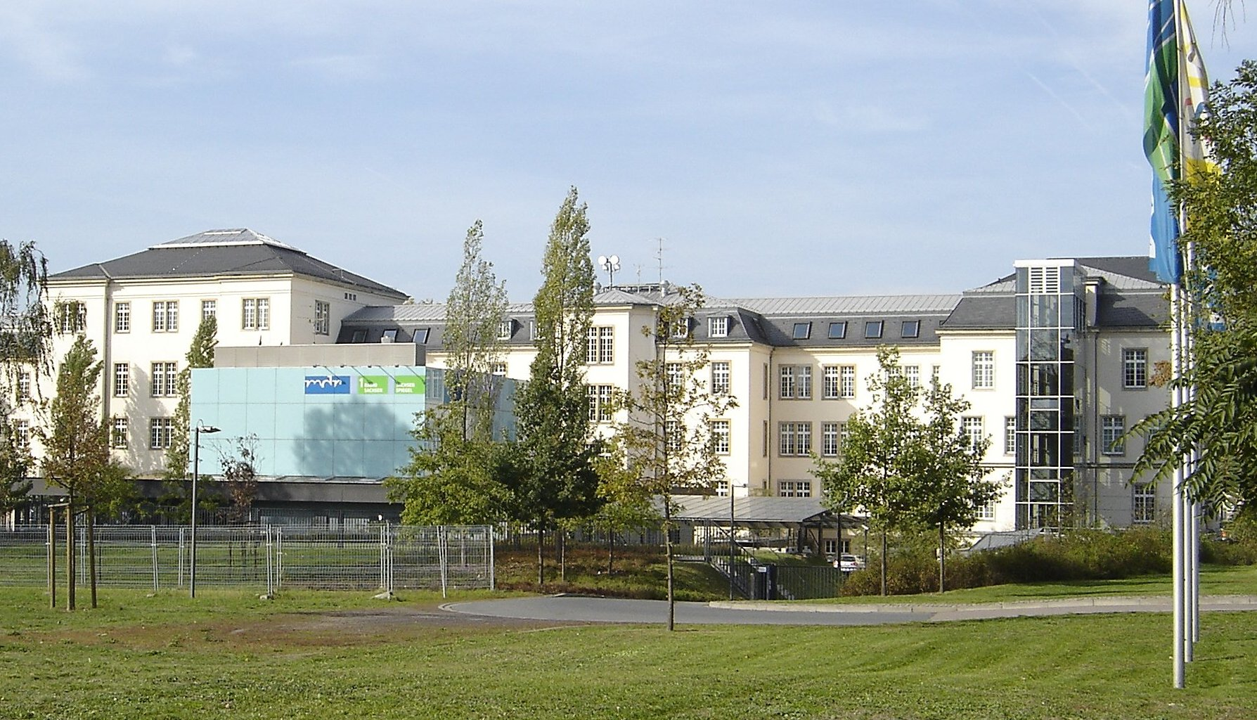 Saxon Broadcasting Center in Dresden